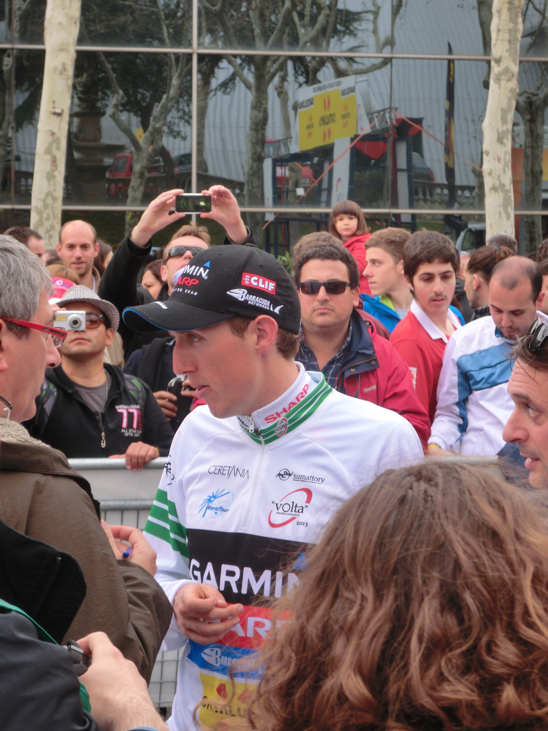 The Irish cyclist, living in Girona, Daniel Martin (Garmin-Sharp team), after winning the 2013 Volta Catalunya.